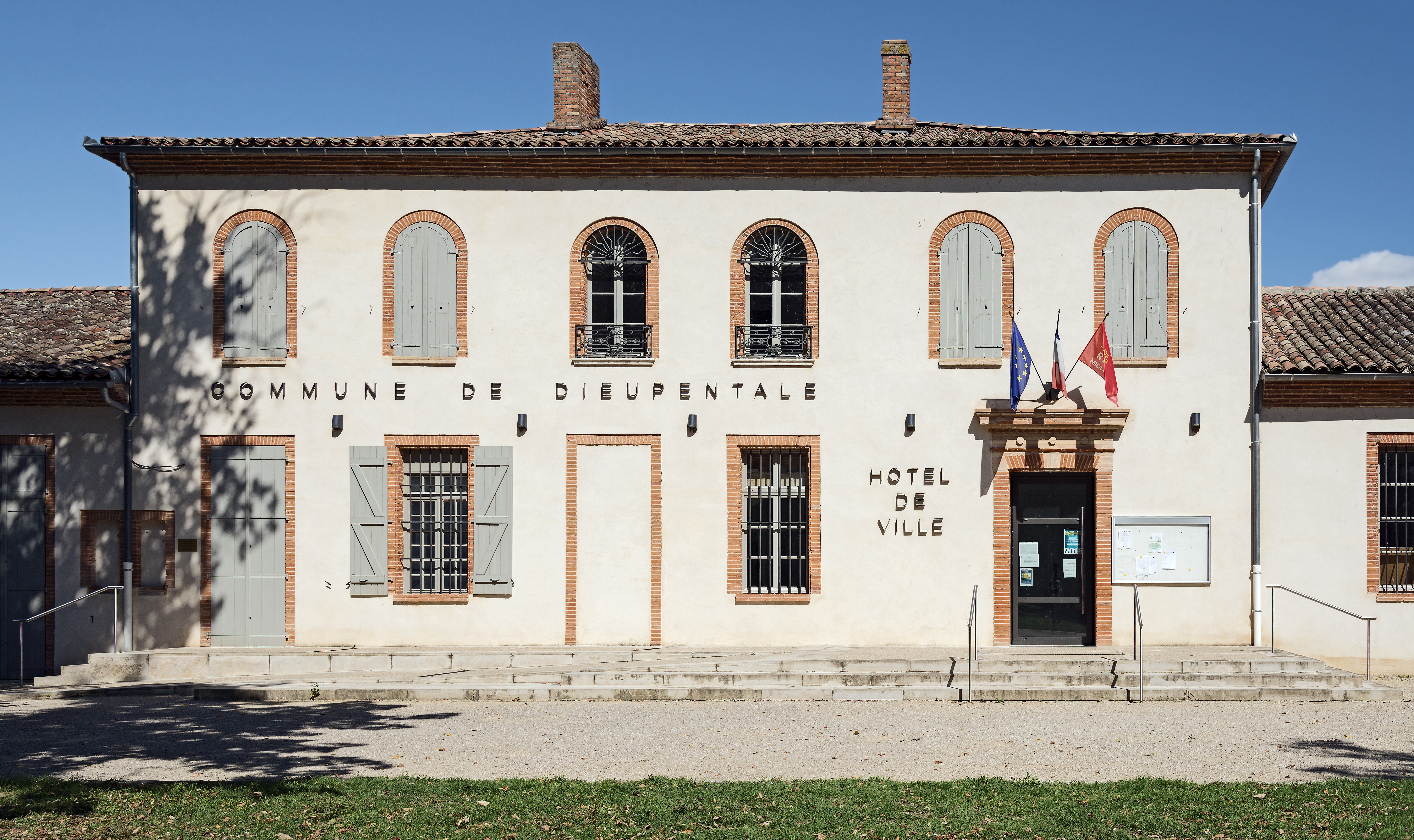 Facade of town hall Dieupentale, Tarn-et-Garonne, France.